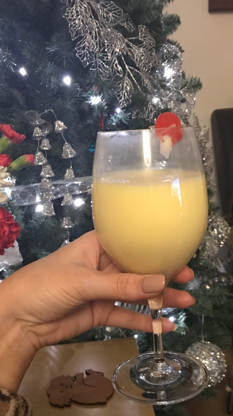 A snowball cocktail being enjoyed on Christmas Eve